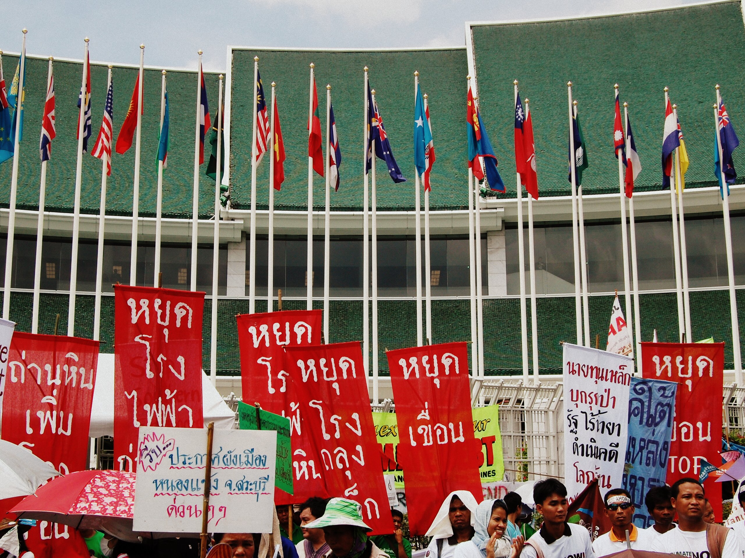 Protesters from various backgrounds converged at the UNESCAP for one big final and united mobilization during the 2009 Bangkok Talks on Climate Change to demand climate justice. Nikon D40 (Bangkok Climate Change Talks, 28 September-09 October 2009)